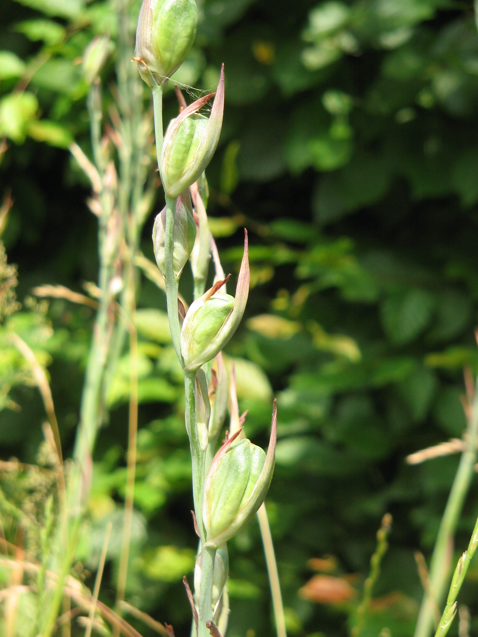 Gladiolus communis subsp. byzantinus fruits